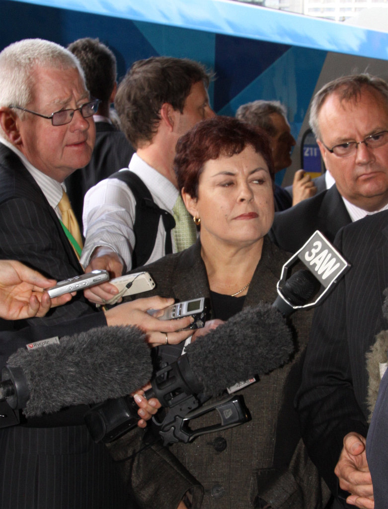 Lynne Kosky at the launch of Metro Trains Melbourne in her role as Minister for Public Transport